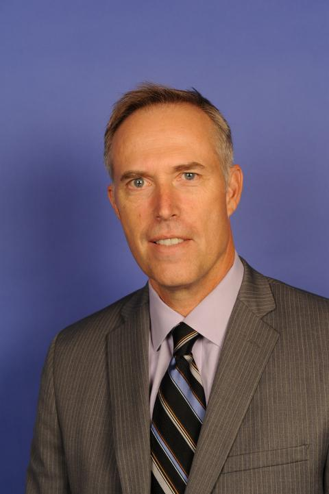 Representative Jared Huffman